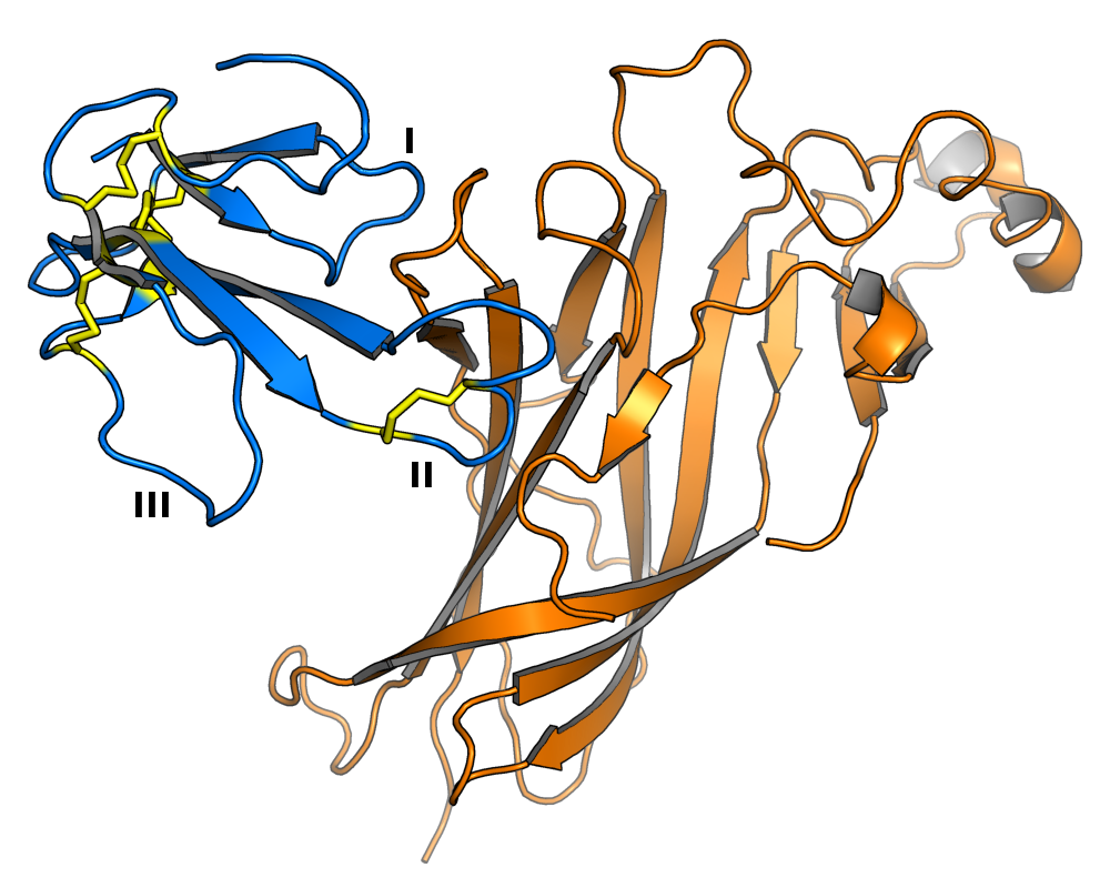 The complex formed by alpha-bungarotoxin (blue) bound to the extracellular domain of the alpha-9 nicotinic acetylcholine receptor (nAChR, orange). The toxin is a long-chain three-finger toxin whose interactions with the receptor are mediated through loops I and II. Disulfide bonds - four conserved bonds in the toxin core and one in loop II - are shown in yellow. Rendered from PDB ID 4UY2. Crystal Structures of Free and Antagonist-Bound States of Human Alpha9 Nicotinic Receptor Extracellular Domain. Zouridakis, M., Giastas, P., Zarkadas, E., Chroni-Tzartou, D., Bregestovski, P., Tzartos, S.J. (2014) Nat.Struct.Mol.Biol. 21: 976 PMID: 25282151